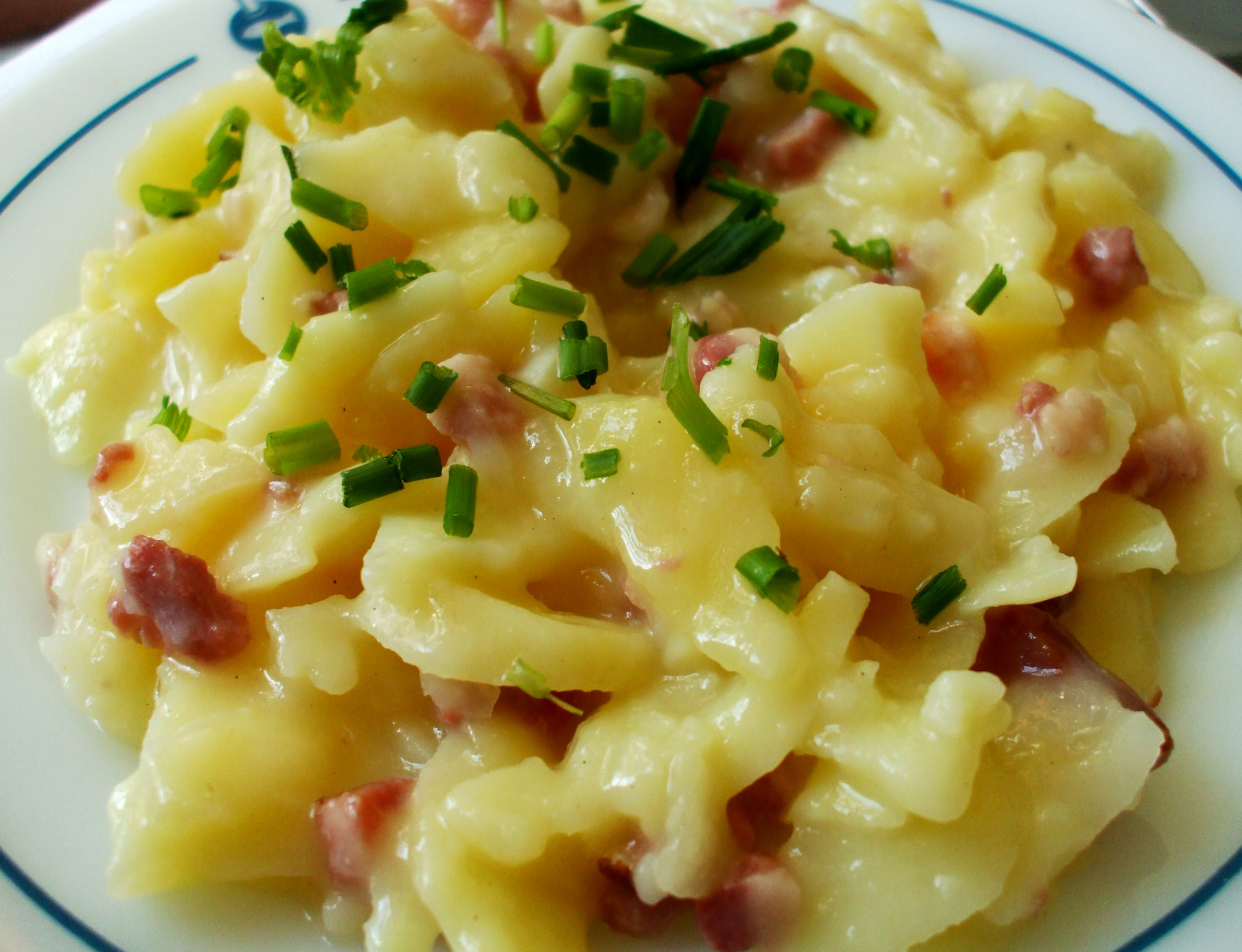 Potato salad made with bacon.